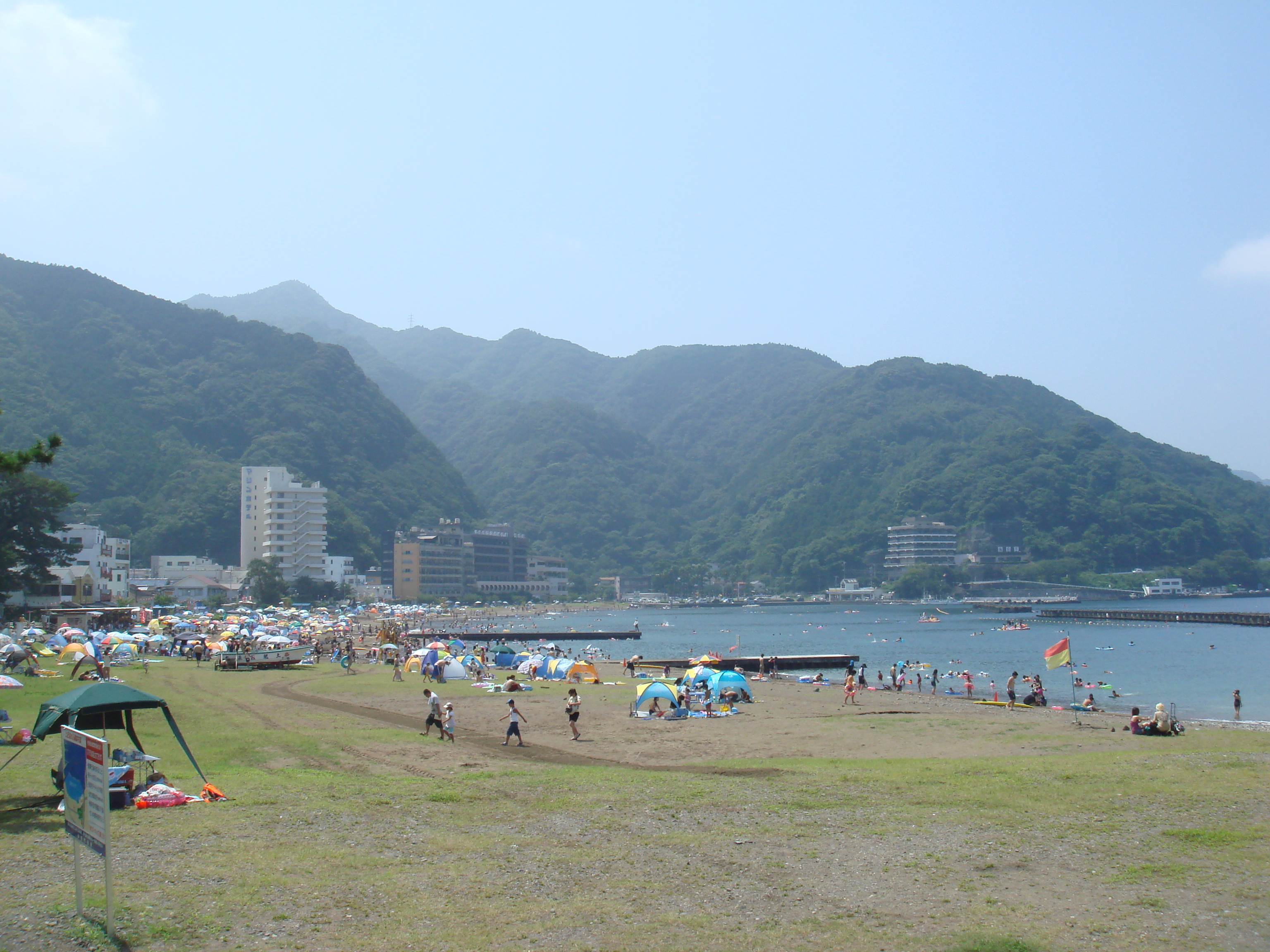 Port of Toi and beach is located in Izu City, Shizuoka, Japan.